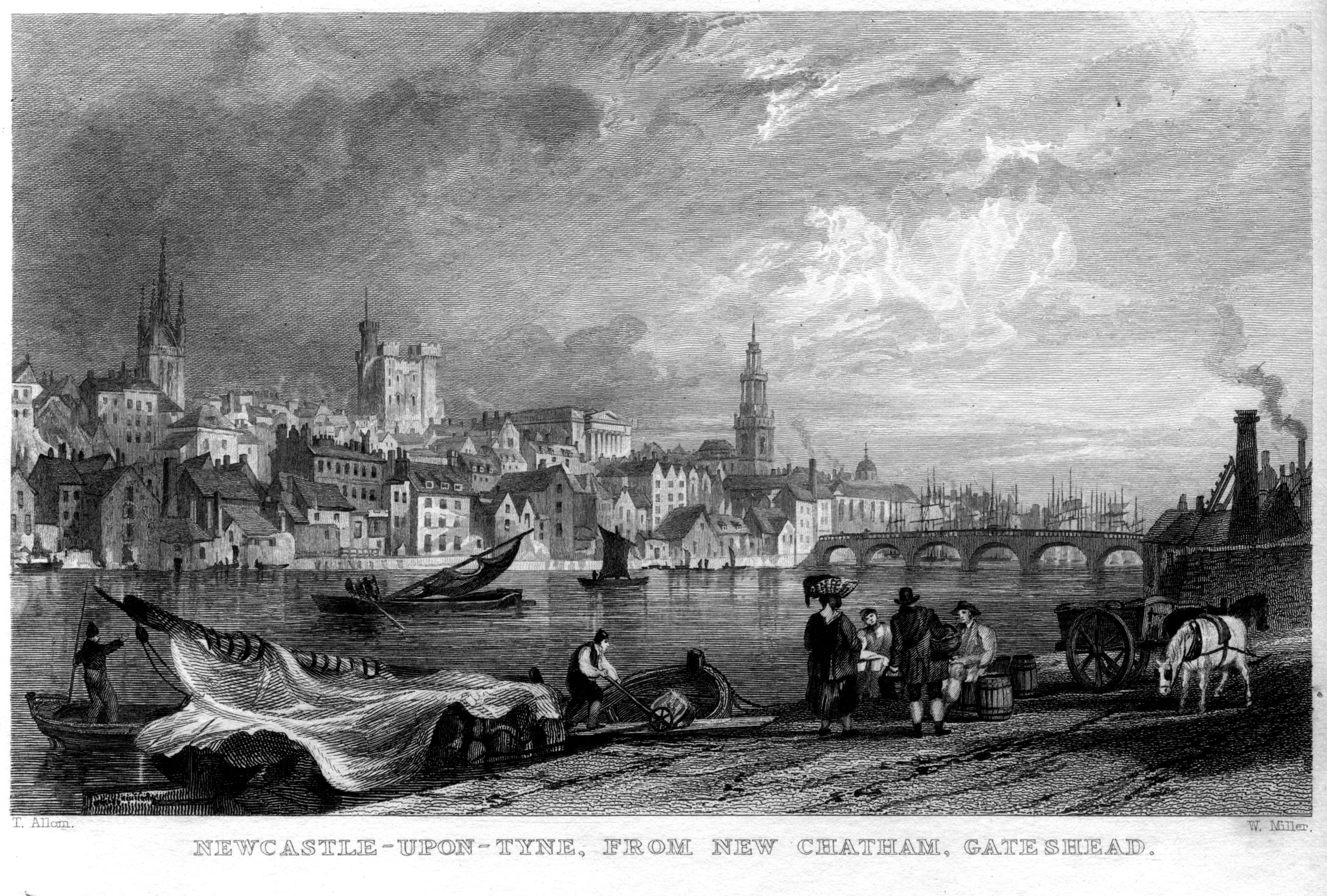 Newcastle-upon-Tyne from New Chatham engraving by William Miller after Thomas Allom, published in Westmoreland, Cumberland, Durham & Northumberland. Illustrated from original drawings by Thomas Allom etc. With historical & topographical descriptions by Thomas Rose. Fisher Son and Co., London 1832